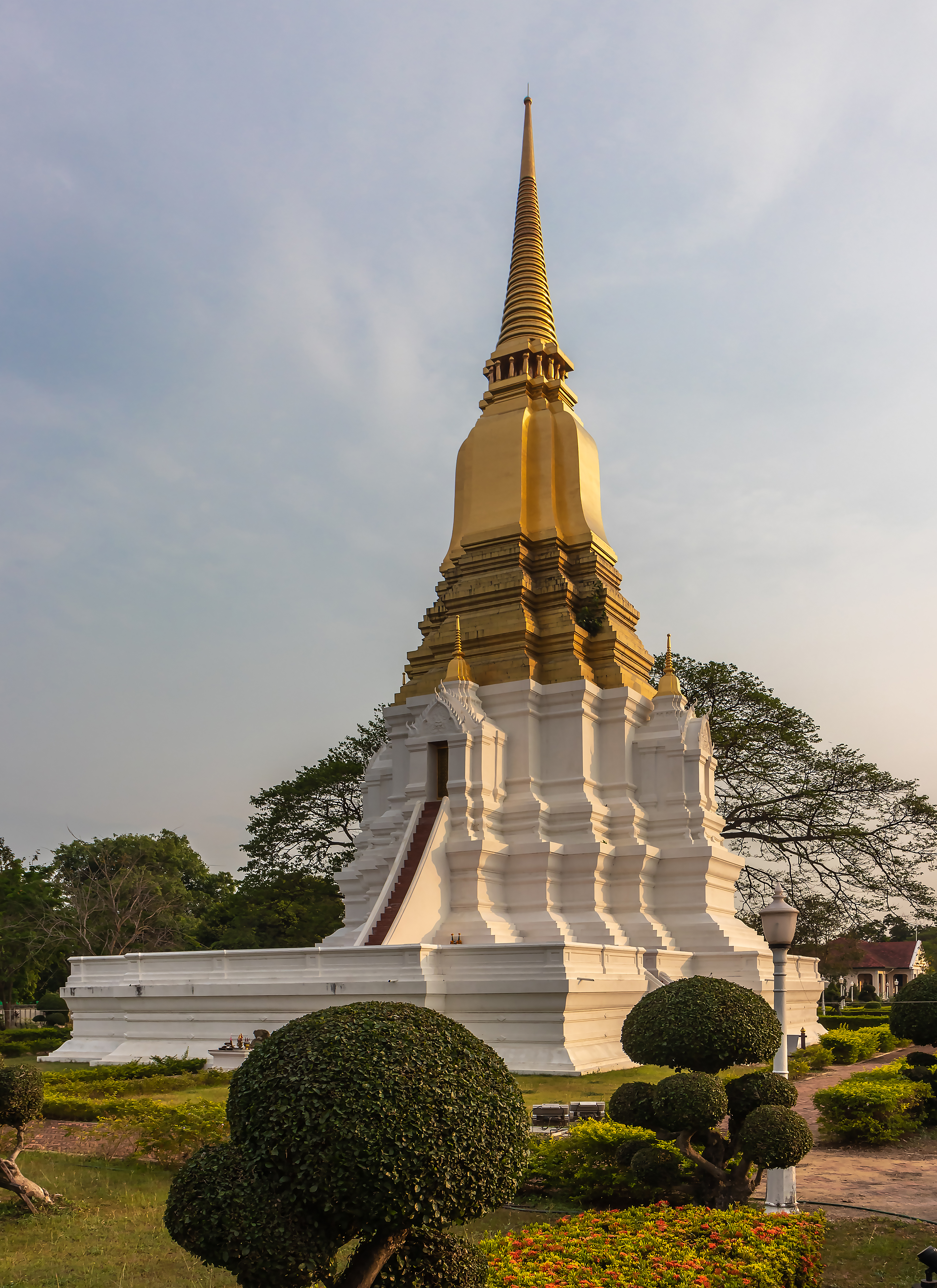 Wat Suan Luang Sopsawan, Ayutthaya, Thailand